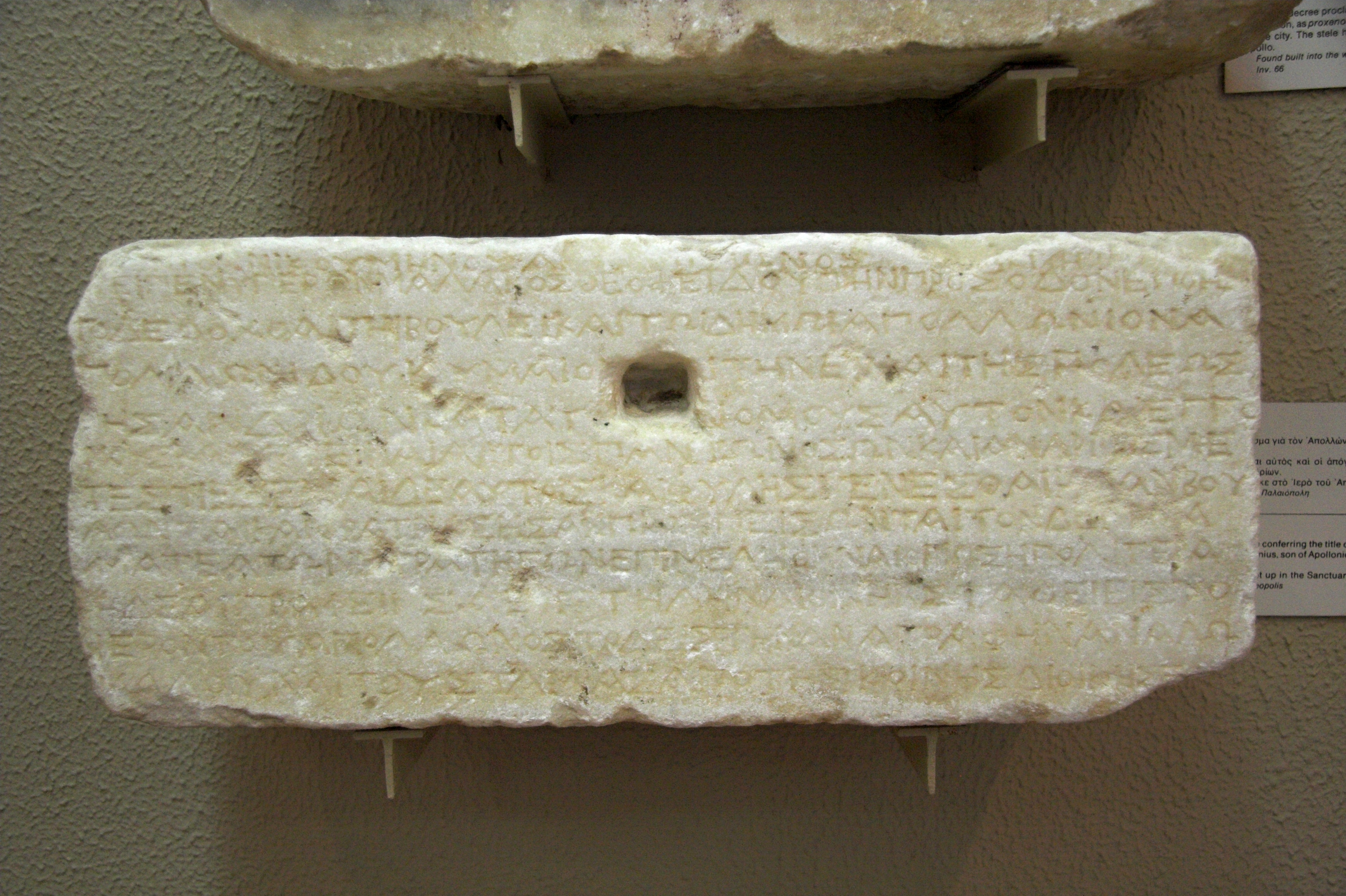 Inscription from the Temple of Apollo in Paleopolis on Andros, marble. Archaeological Museum of Andros (Chora).